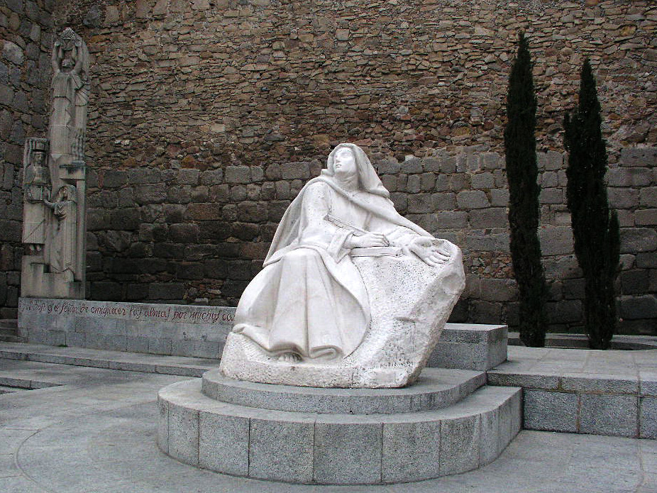 The Saint Teresa of Ávila, Ávila de los Caballeros, Spain. Born 1515 in Ávila, dead in Alba de Tormes 1582 The picture was taken the 12 of April 2004 by Håkan Svensson (Xauxa).